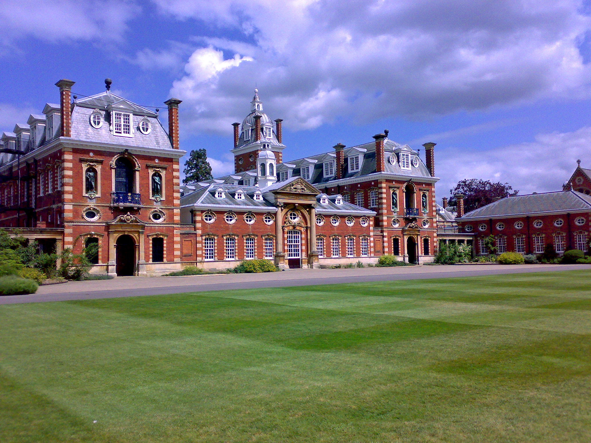 View of Wellington College main buildings from the south.